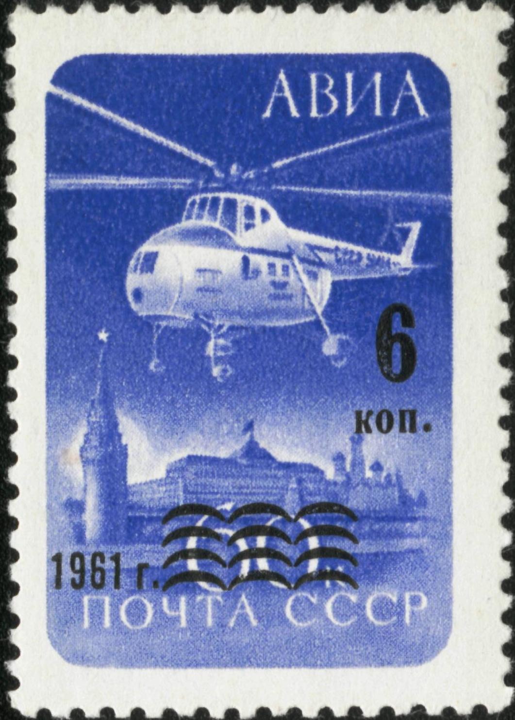 USSR stamp. M4 helicopter hovering over the Great Kremlin Palace. A 6 kopecks overprint on USSR stamp of 1960, 60 kopecks (denominated ten-fold). Unused. CPA No. ?.